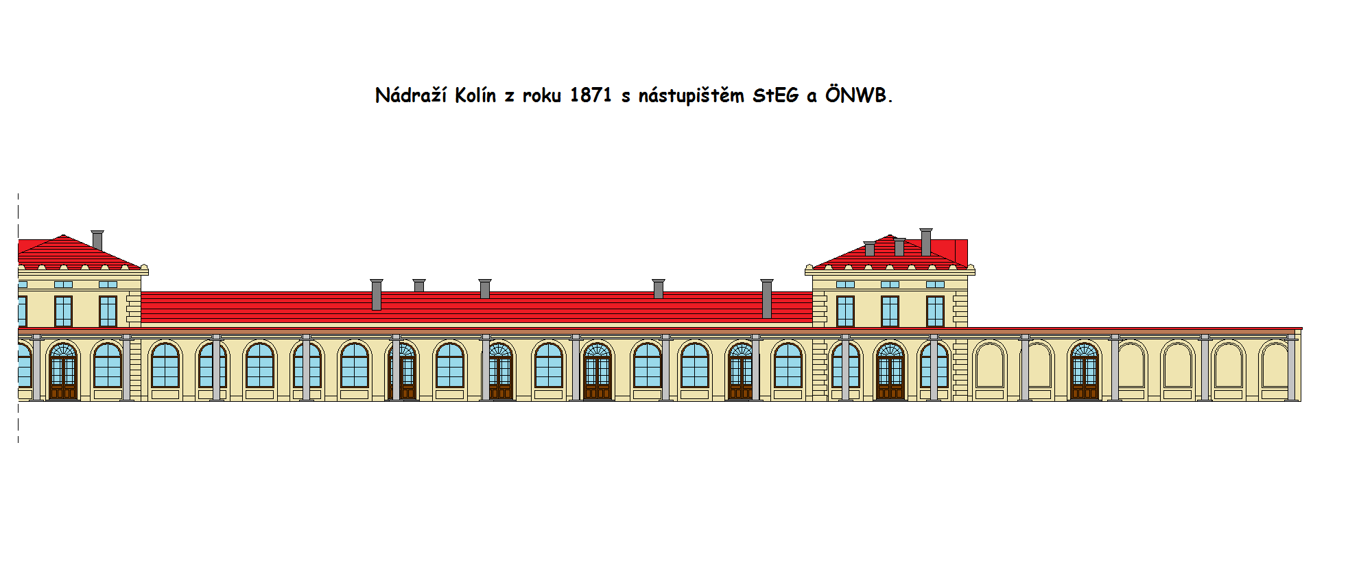 The nonexistent railway station in Kolín. Built in 1871. Was found at the same place, what the present station Kolín.